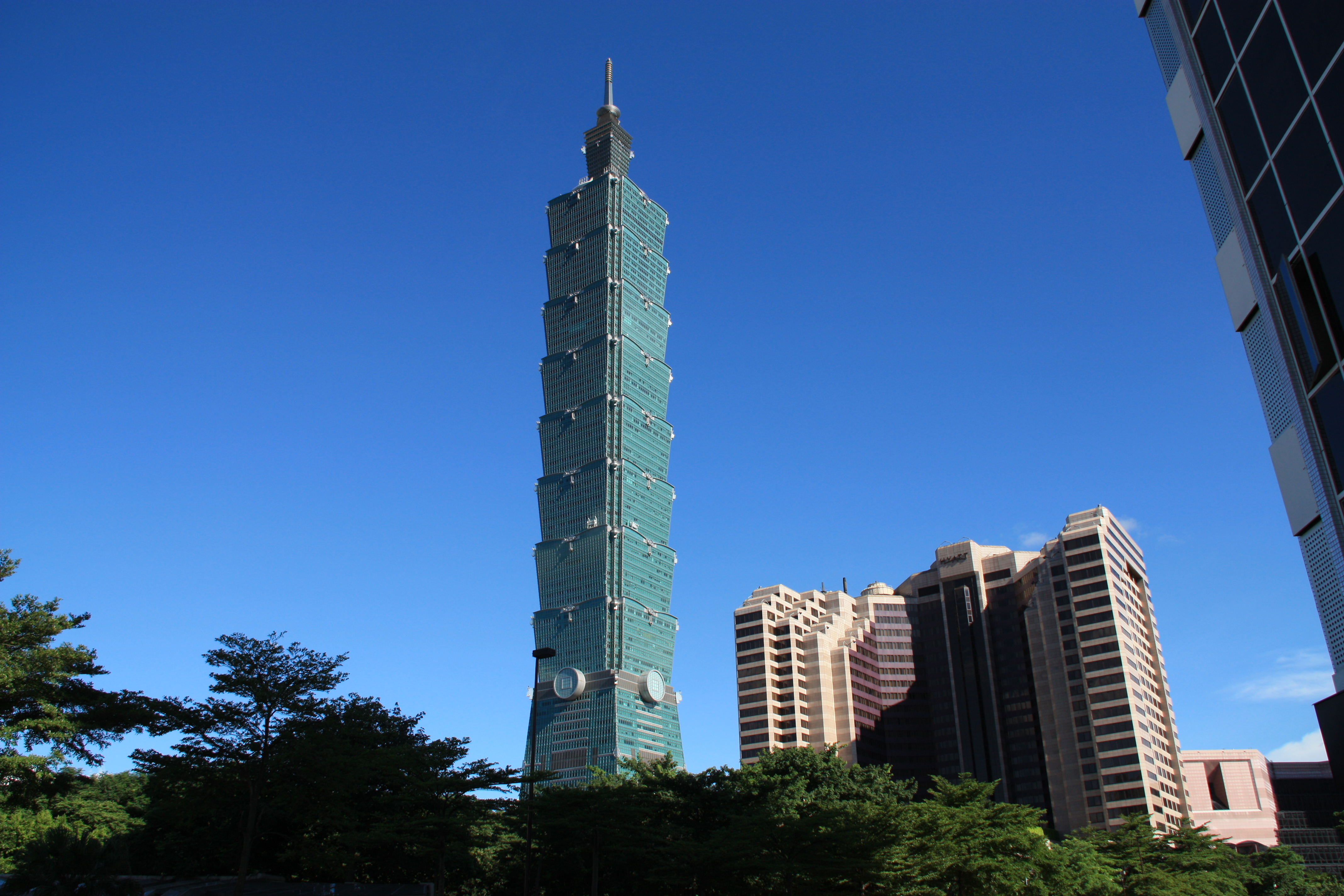 Táiběi Xìnyì District JīLóng Rd, Yìxian Rd View to Grand Hyatt HotelTaipei and Taipei 101